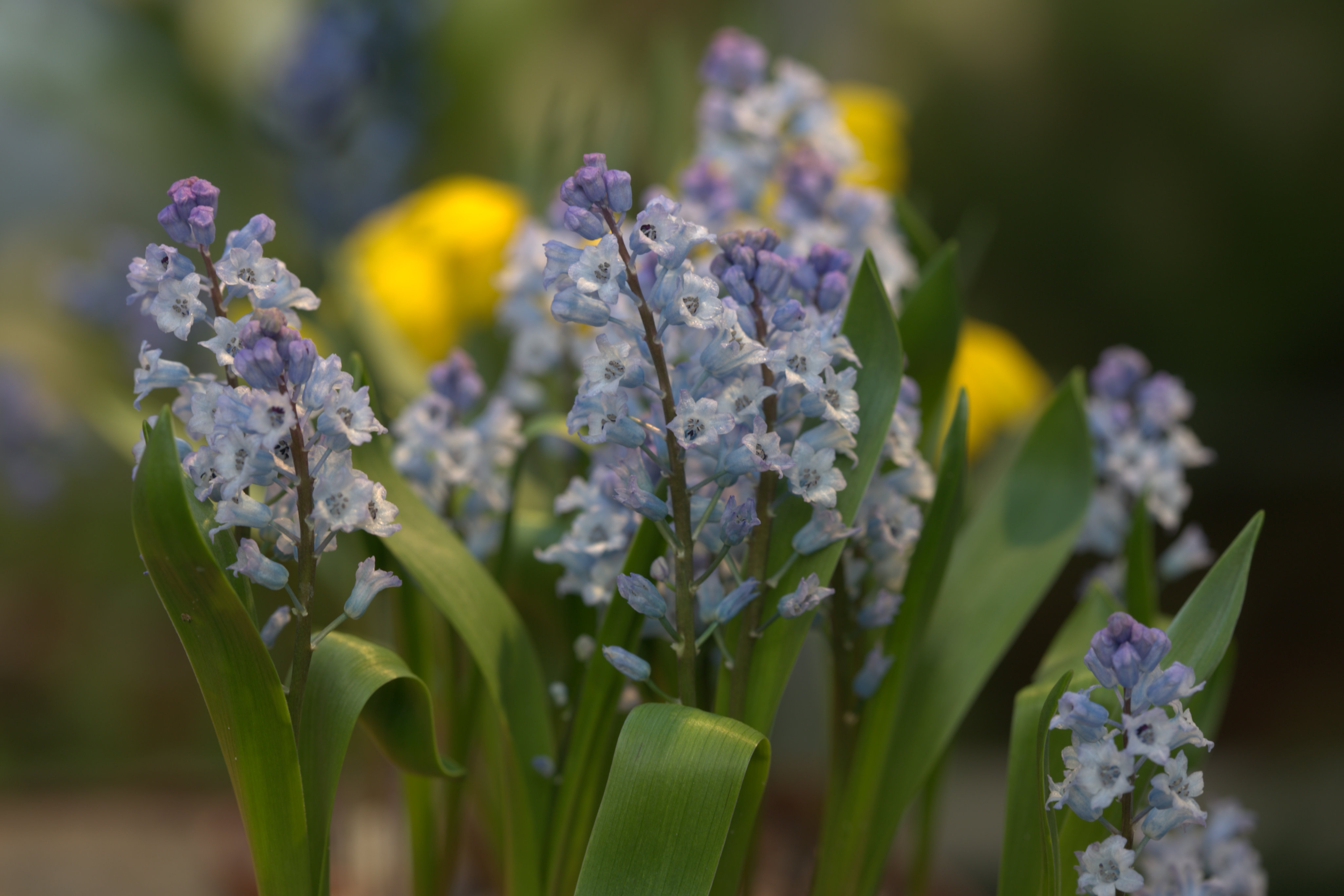 Hyacinthella leucophaea ssp. atchleyi in Gothenburg Botanical Garden. Plant id: 2001-2221 p W -- Strid